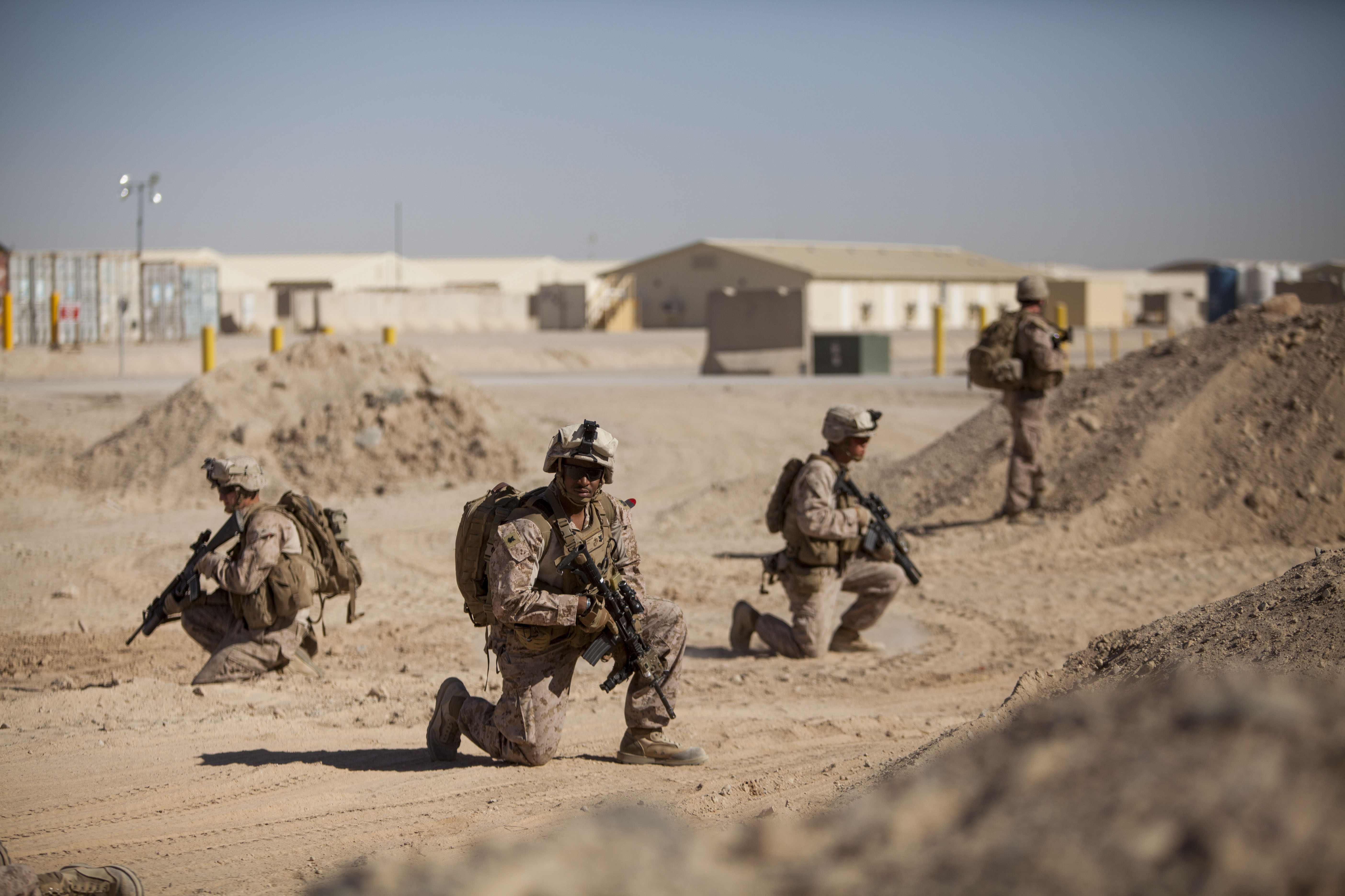 U.S. Navy Hospital Corpsman 2nd Class Branden Johnson, second from left, assigned to the Marine Corps Fox Company, 2nd Battalion, 8th Marine Regiment, Regimental Combat Team 7, participates in a mission rehearsal at Camp Bastion, Helmand province, Afghanistan, May 28, 2013. Marines and Sailors with the unit conducted the rehearsal to prepare for a partnered operation with Afghan National Army soldiers.